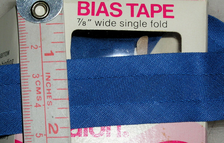 Commonly available single-fold bias tape, showing bias strip of fabric fold once on each edge.